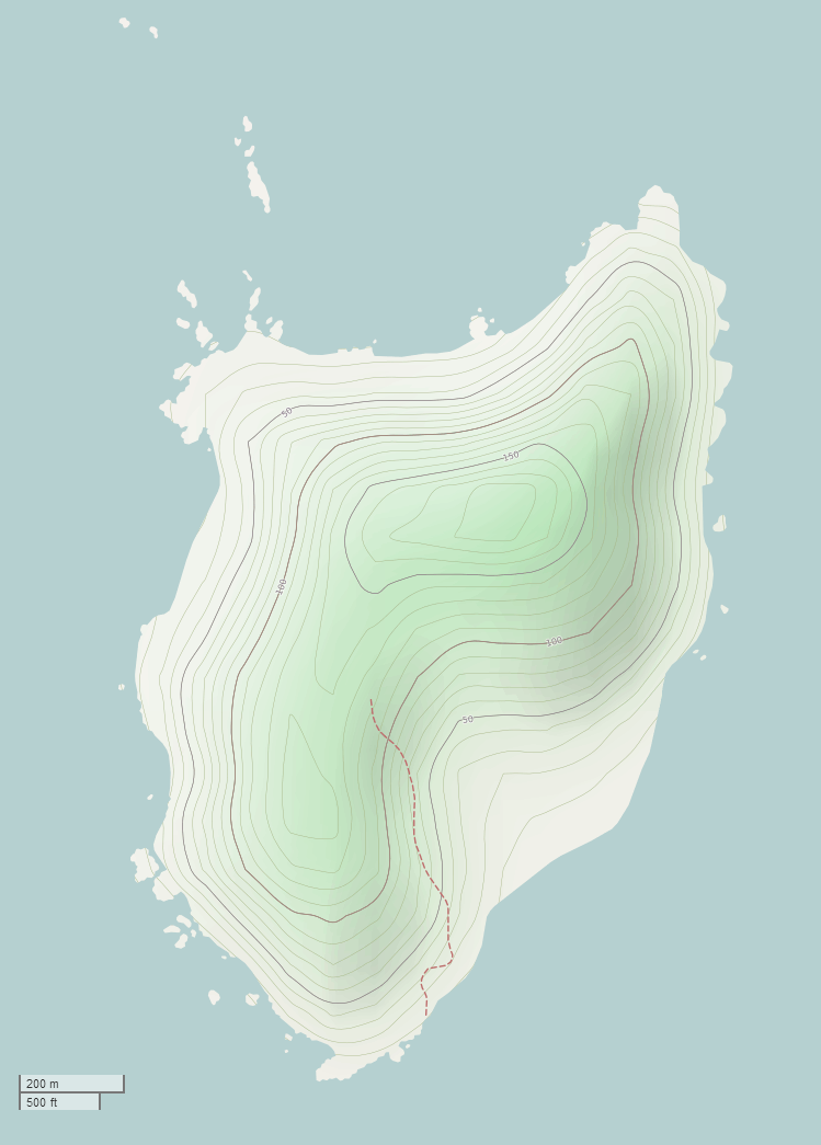 Topographic map of Yakabi Island, Zamami, Okinawa.